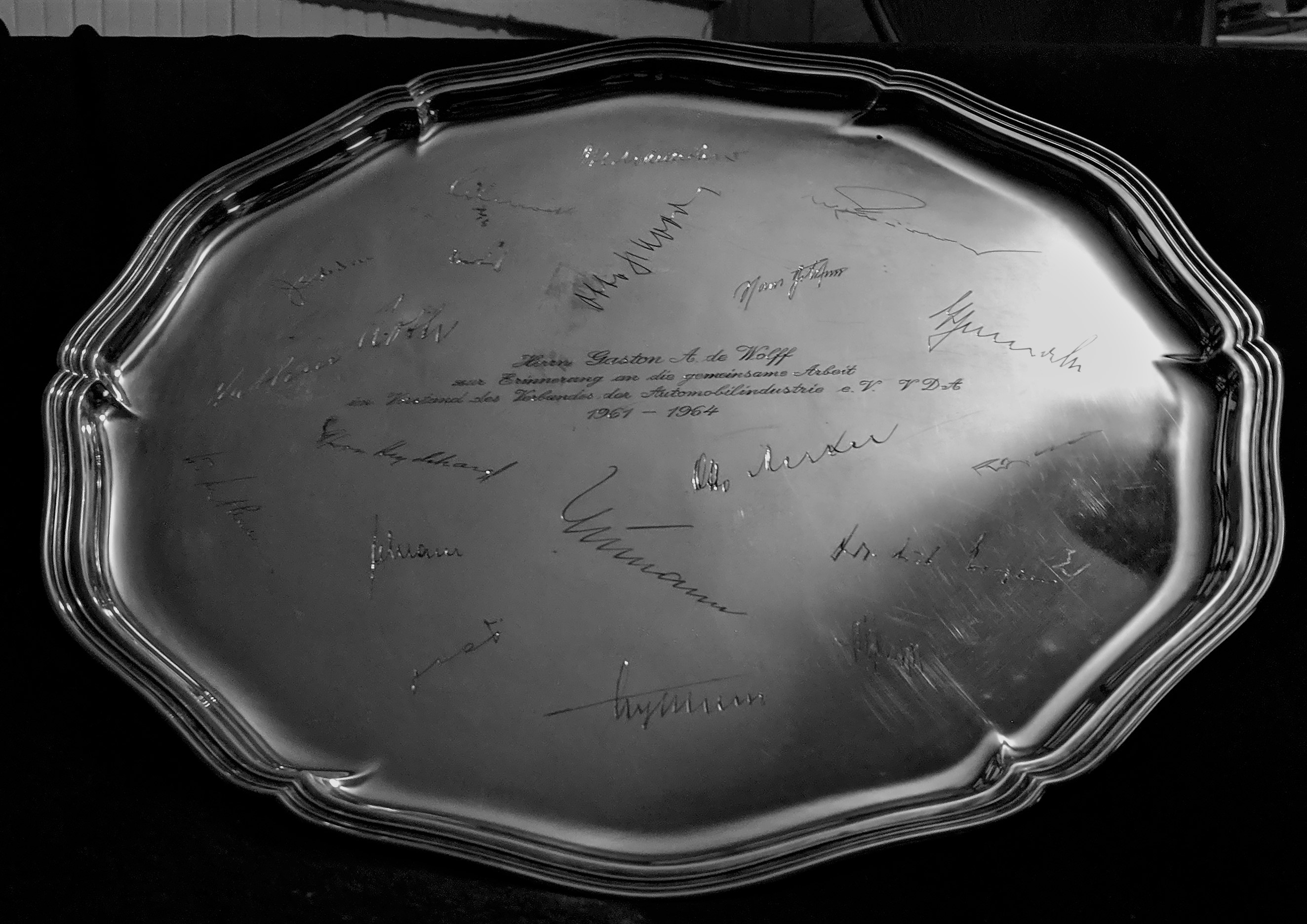 A silver platter, engraved with the signatures of the CEOs and Chairmen of German automobile manufacturers, was presented to Gaston de Wolff in the mid-1960s. The inscription states, in German, "For Mr. Gaston A. de Wolff, in recognition of the collaborative work on the Board of the Association of the Automobile Industry."